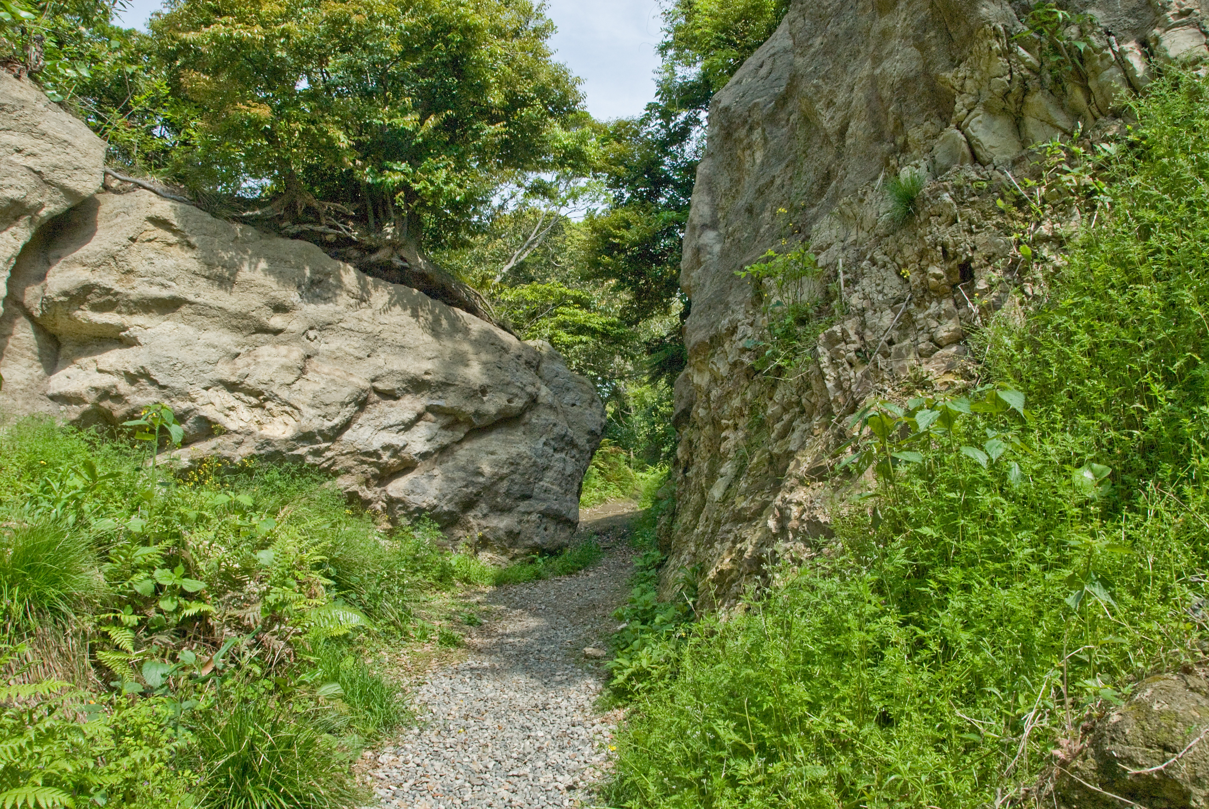 The Nagoe Pass between Zushi and Kamakura. It used to be important because it linked Kamakura to the Miura Peninsula